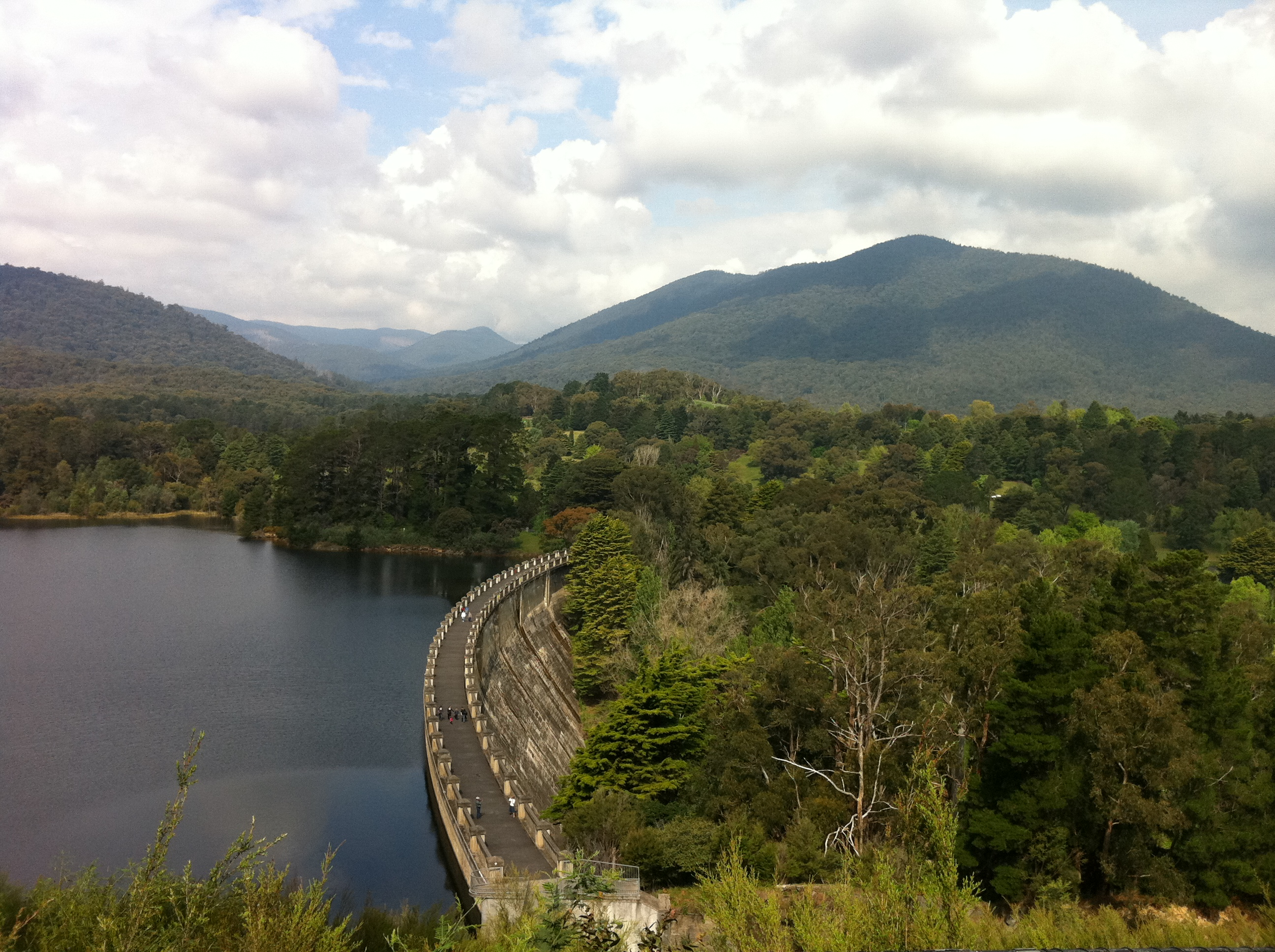 Maroondah Dam at 100% capacity after the heavy rains of 2011